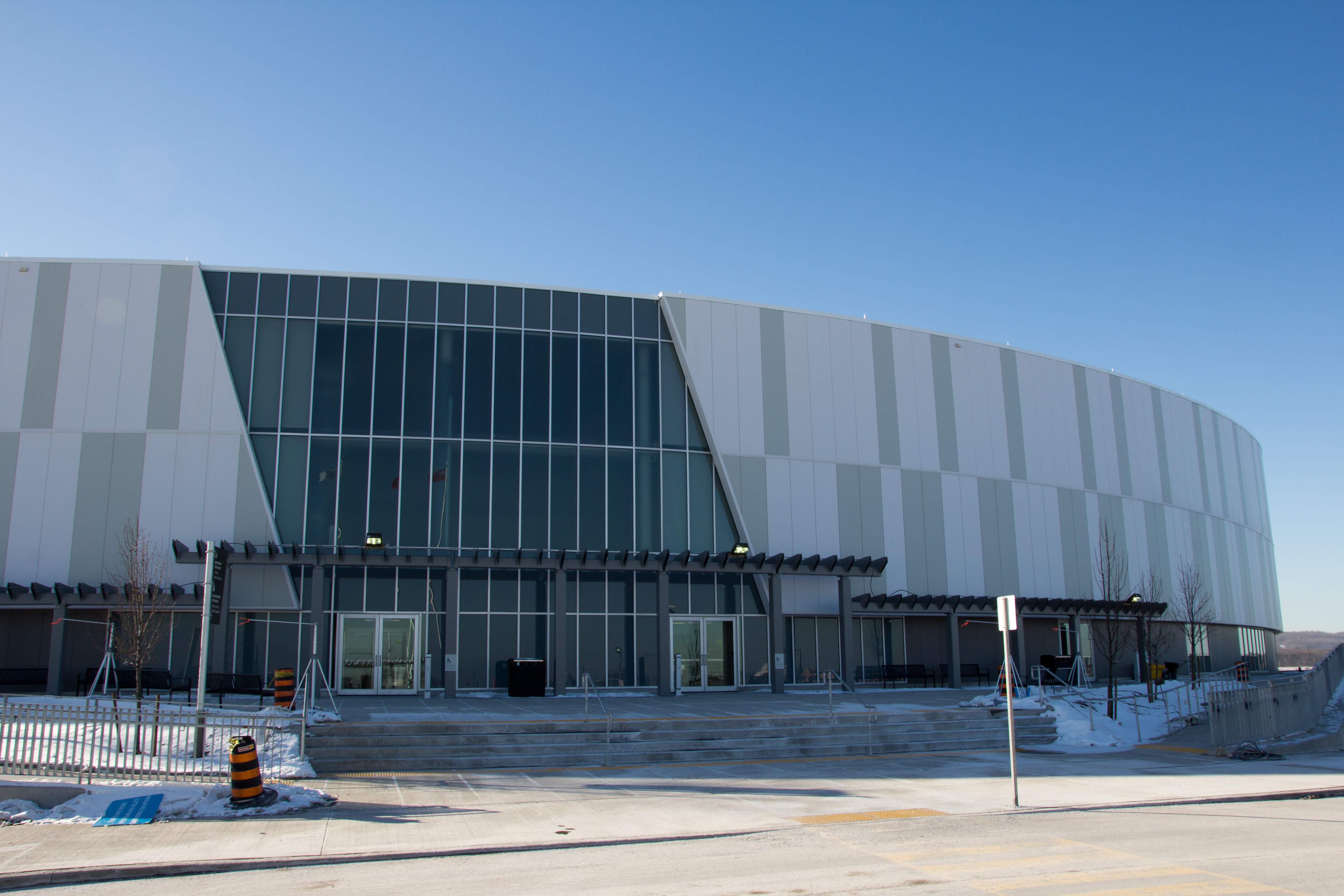 Main entrance of the Mattamy National Cycling Centre